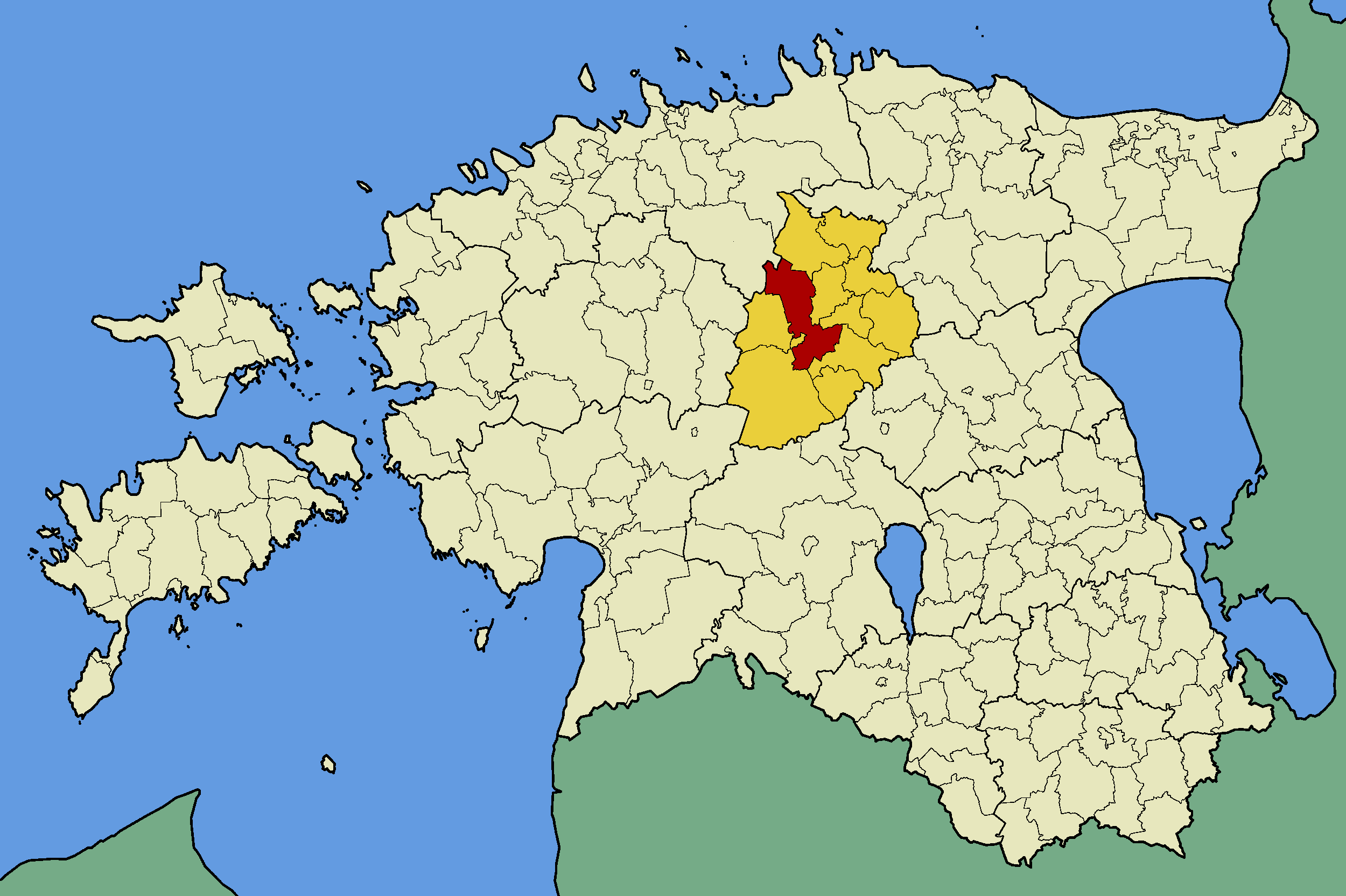 Map of Estonia with borders of municipalities (parishes). Järva county and Paide municipality emphasized.